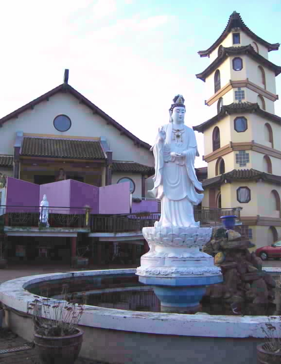 Viên Giác Pagode, Hannover (Pagoda Vien Giac in Hannover, Germany)